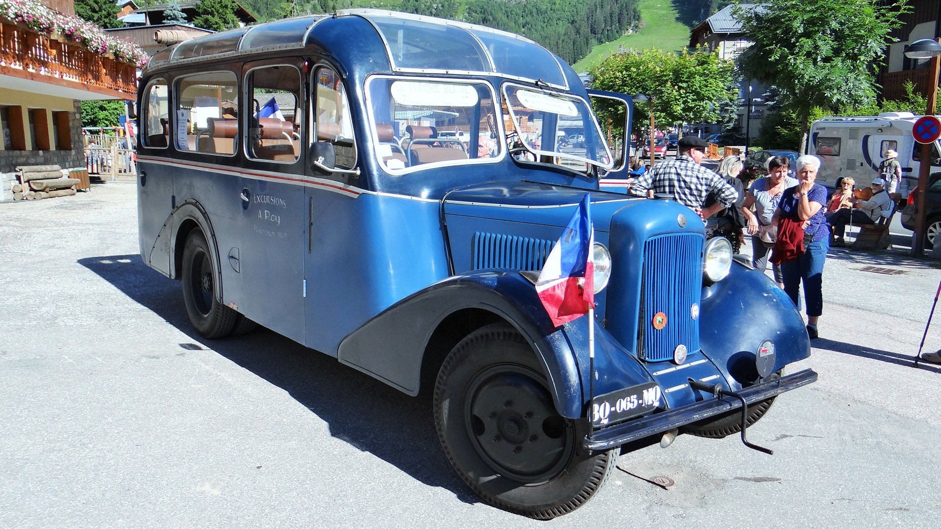 Tour bus UNIC 1937 type L20 15 seats, bodywork FAURAX and CHAUSSENDE 6 cylinders (686) 3,5 l 17 CV at the festival 2016 Alpe and Guides Pralognan-la-Vanoise